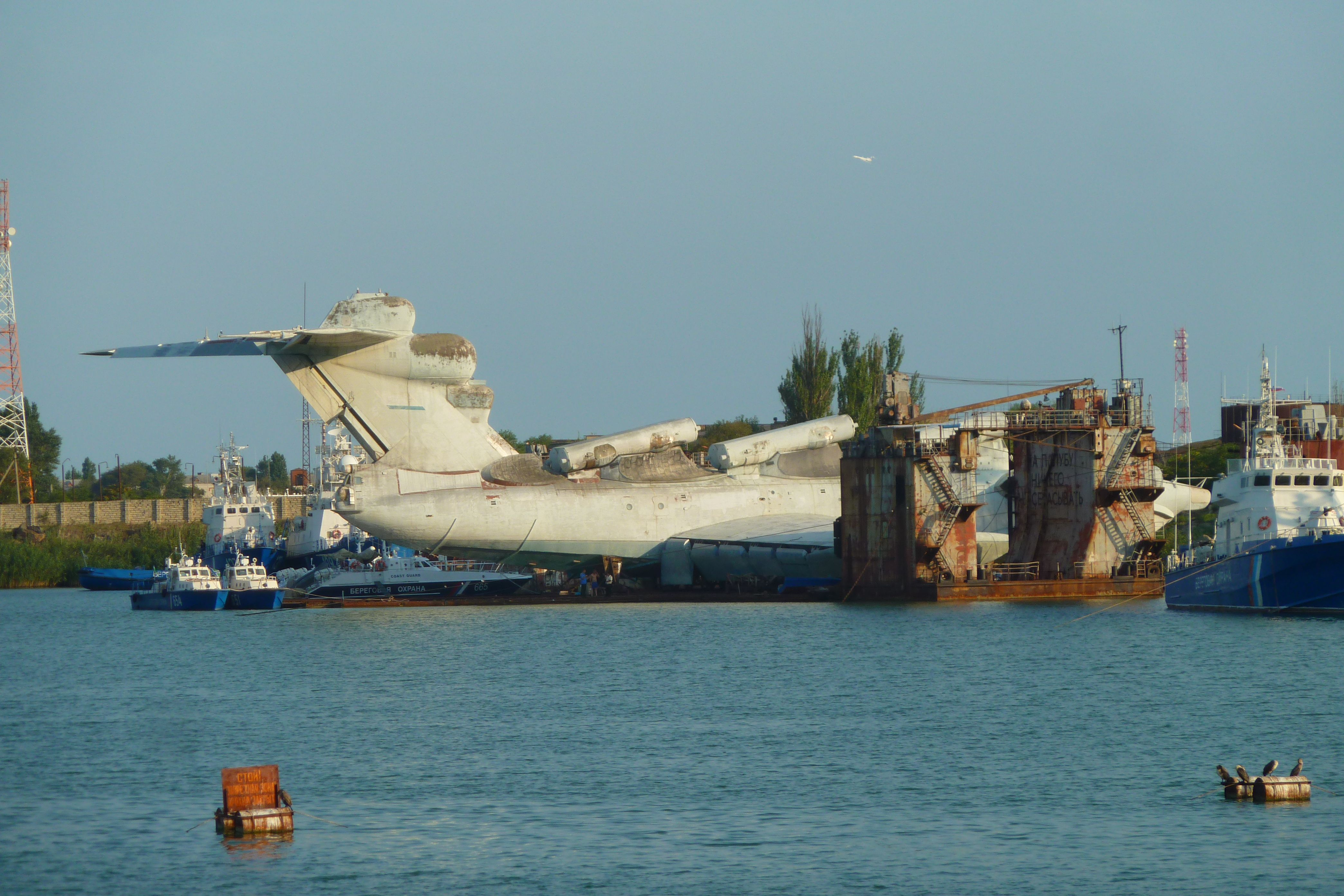 The Lun-class (harrier) ekranoplan (NATO reporting name Duck) was a seaplane designed by Rostislav Evgenievich Alexeev and used by the Soviet and Russian navies from 1987 to sometime in the late 1990s. This ground effect aircraft used the extra lift generated by its large wings when close to the surface of the water (about four meters or less). Lun was one of the largest seaplanes ever built, with a length of 73 m (240 ft), rivaling the Hughes H-4 Hercules ("The Spruce Goose") and many jumbo jets.